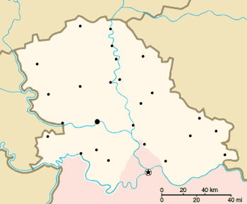 Blank map of Vojvodina (Serbia)